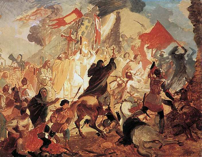 The last and unfinished painting